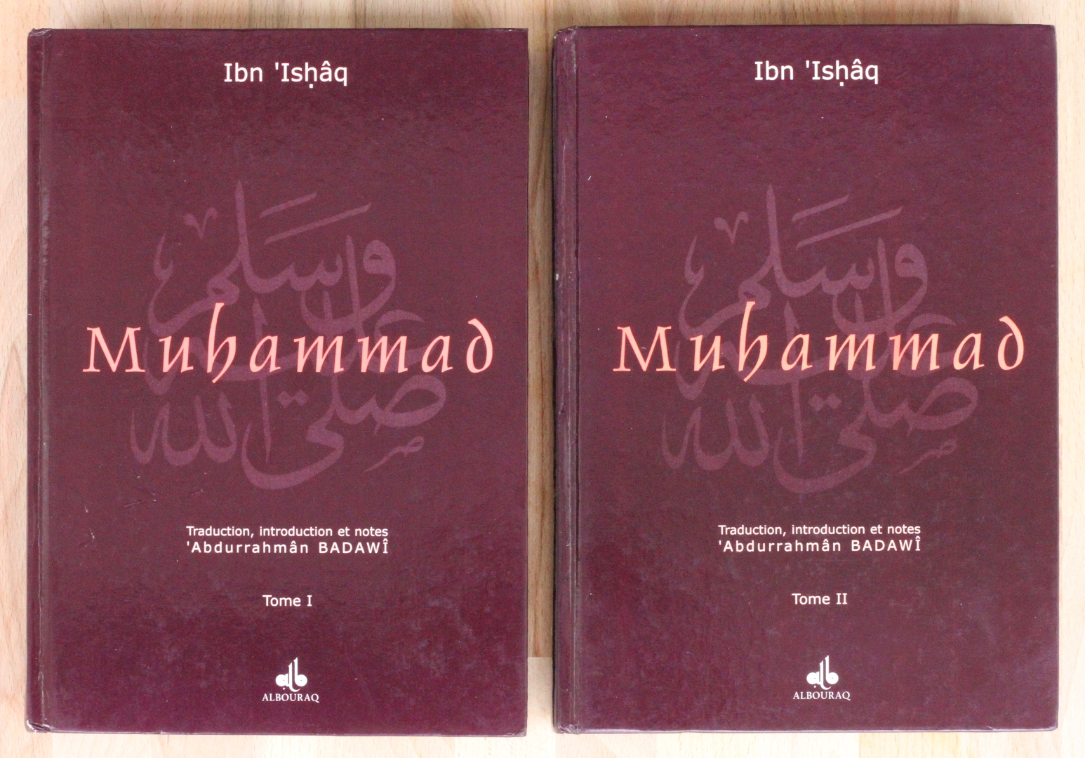 Ibn Ishaq, Muhammad, French translation annotated by Abdurrahman Badawî. The Arabic translated text is the one of the edition of Ferdinand Wüstenfeld, the pagination of which is specified between brackets.